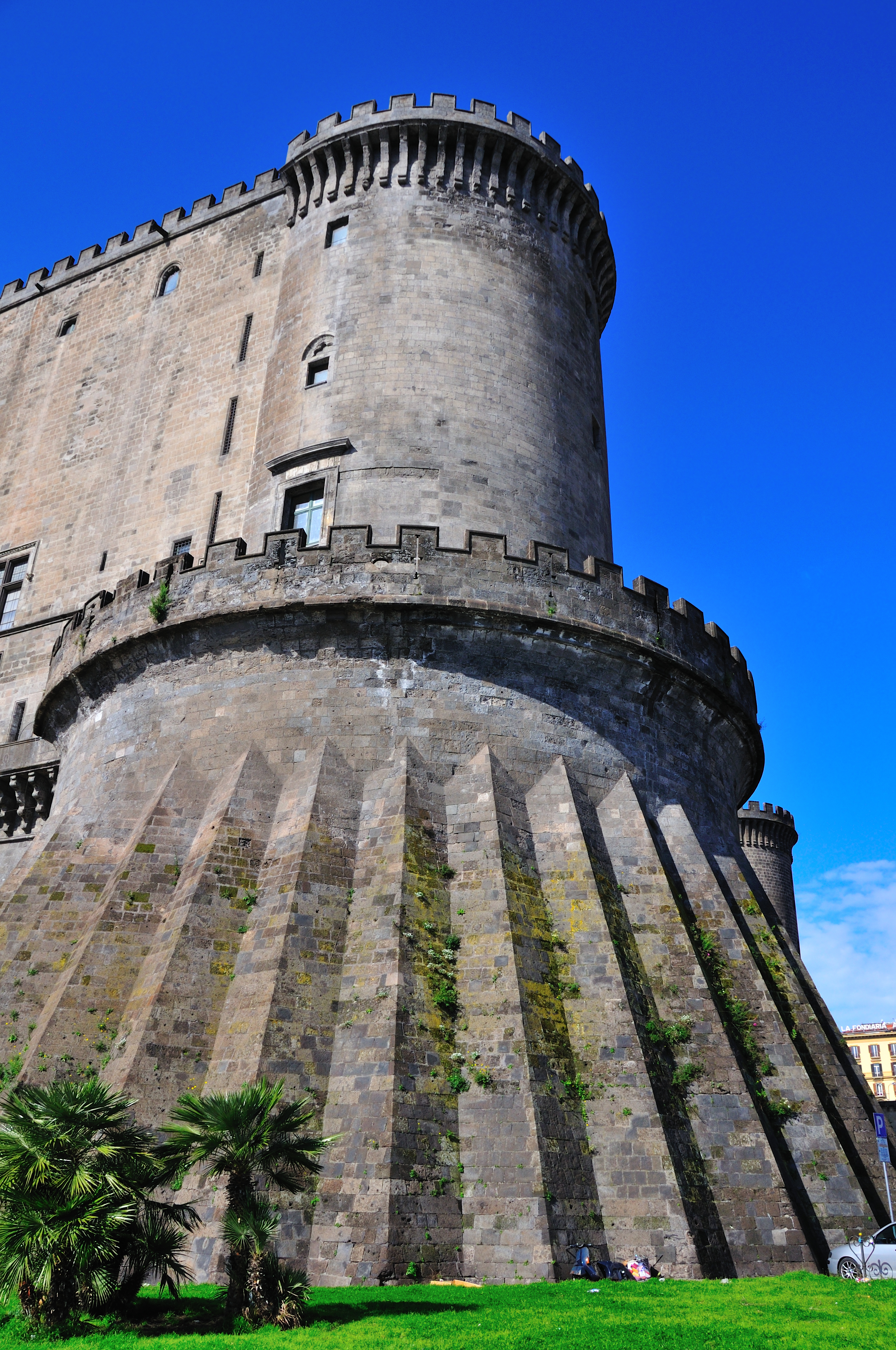 Castel_Nuovo ( New Castle ) in Naples Italy